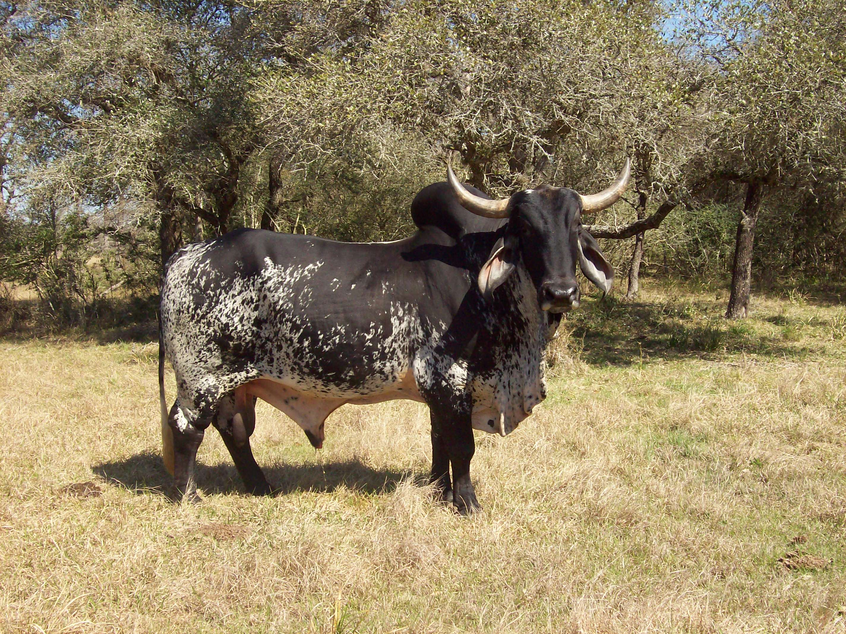 Brahman bull